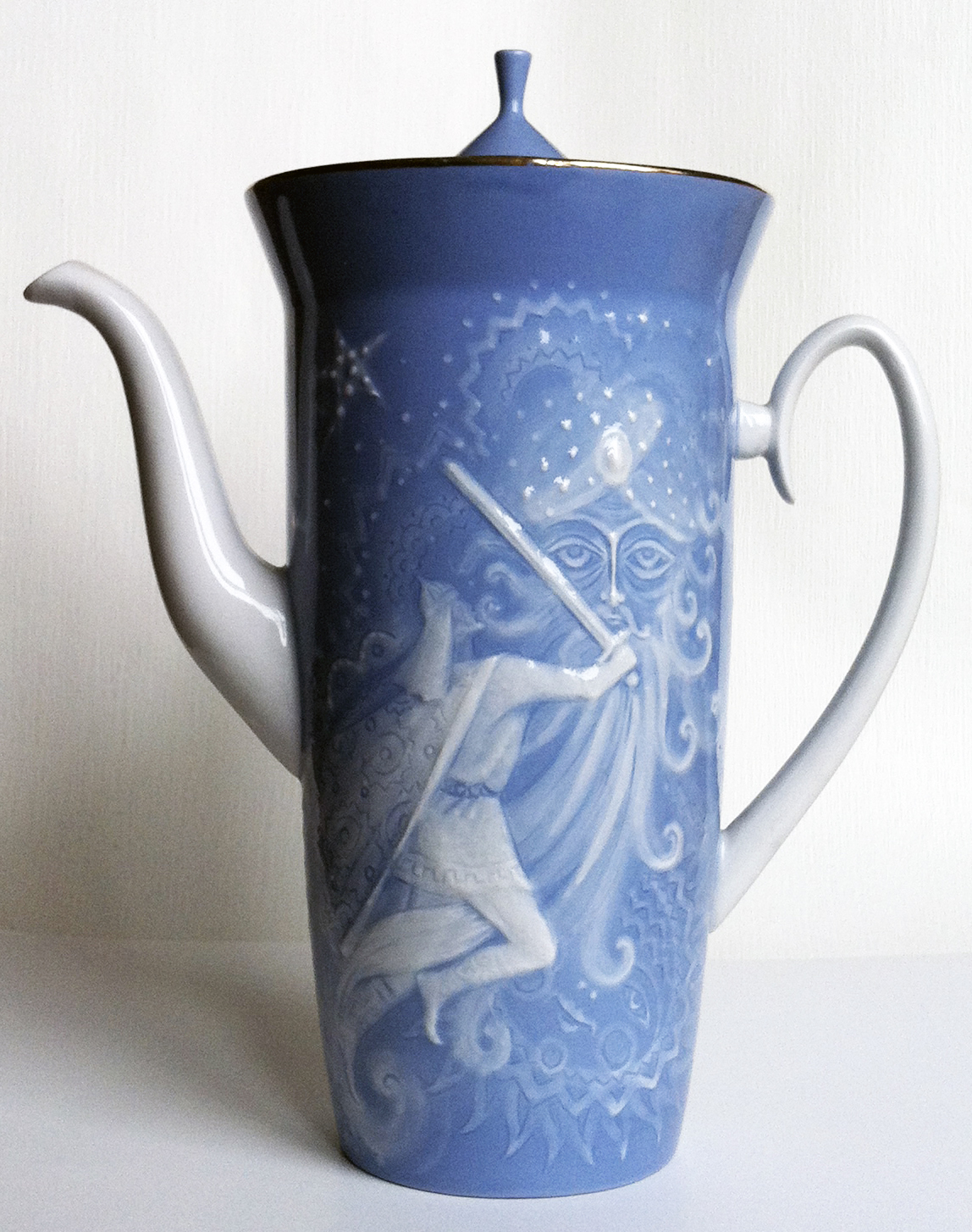 Coffee pot on the fairy tale of Alexander Pushkin's «Ruslan and Lyudmila». Porcelain. Technique is Blue-White porcelain, with applied and hand-finished reliefs (pate-sur-pate). Form—«Yaroslavna». Author of the form and painting Bystrushkin B.D.